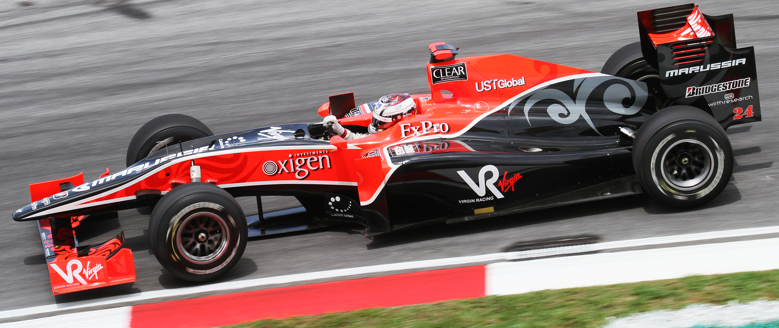 Formula One 2010 Rd.3 Malaysian GP: Timo Glock (Virgin) during Friday 2nd Free Practice session.